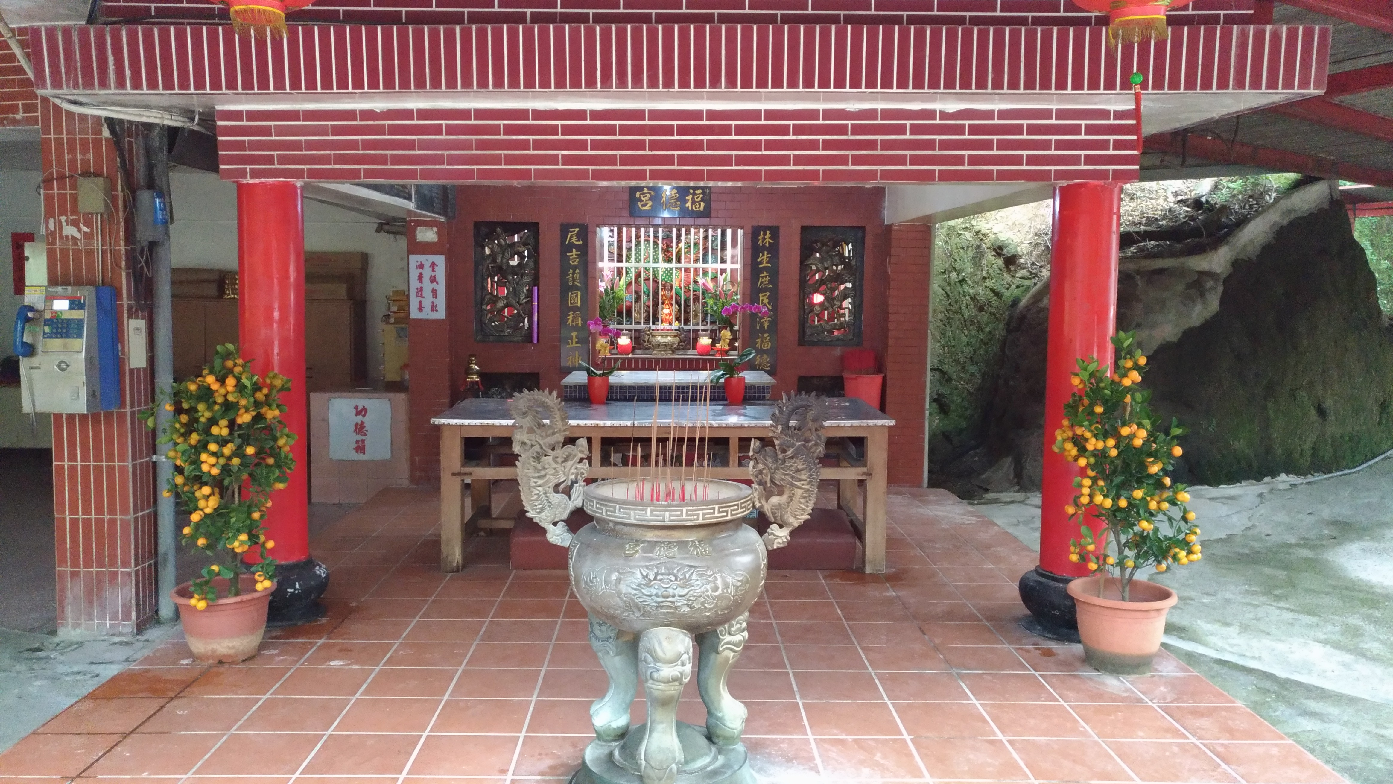 Temple of Earth God, AS, Taiwan